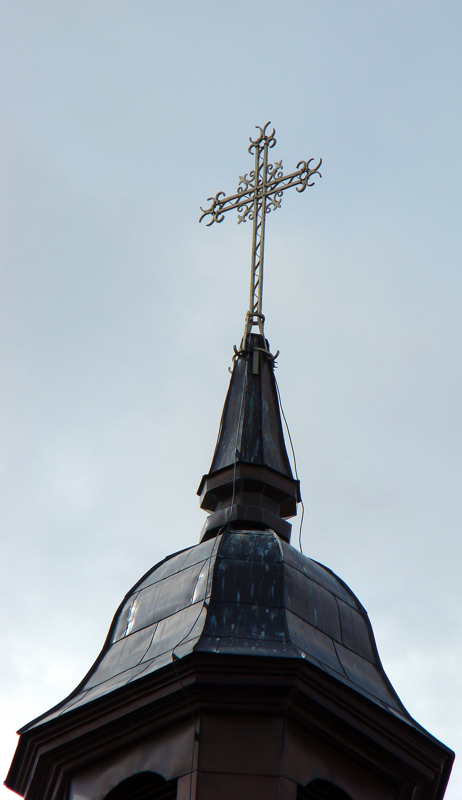 St. John the Evangelist Church, Szczecin, Poland